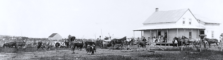 Photograph, Eusebe Simard's farm, Hébertville, Lake St. John, QC, about 1906, Wm. Notman & Son, Silver salts on glass - Gelatin dry plate process - 20 x 25 cm